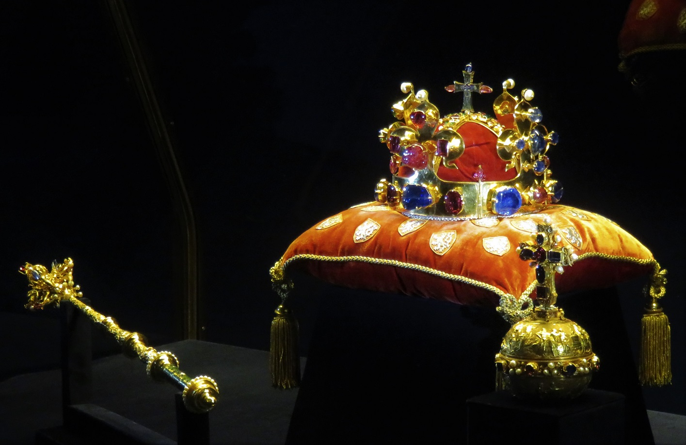 Coronation jewels of Bohemia (Czechia).